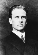 Believed to be an authentic photo of the young Rudolf Abel